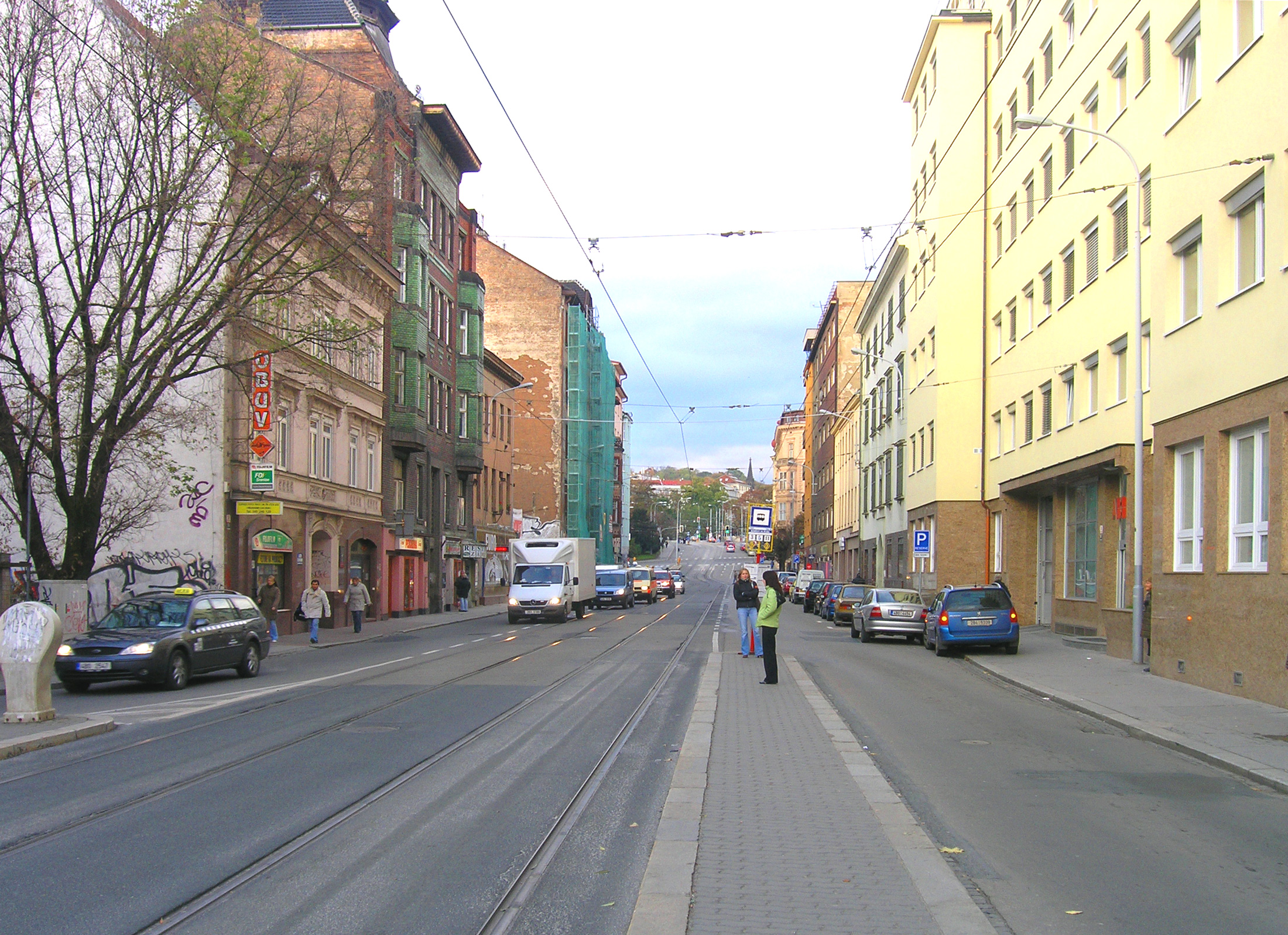 Milady Horákové street in Zábrdovice quarter in Brno, Czech Republic